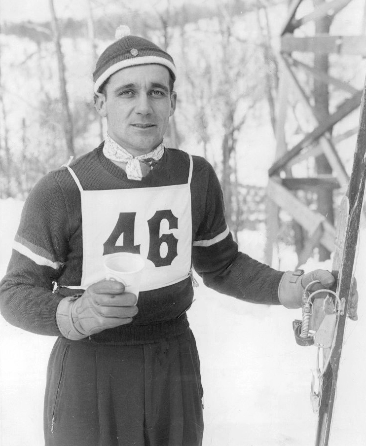 1949 Paul Joseph Joe Perrault United States Olympic Ski Jumper Press Photo